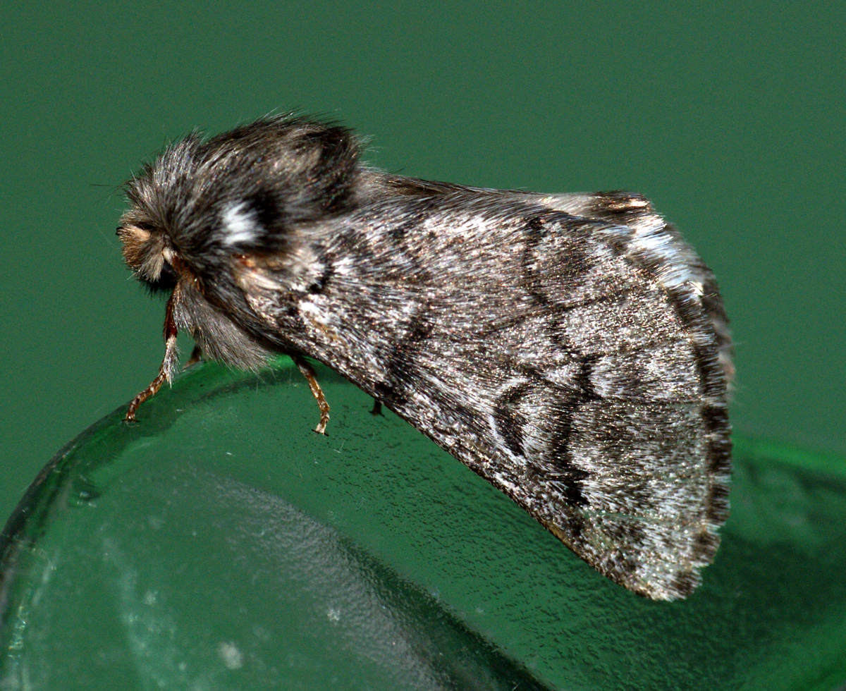 Spain, Nerja - 9w Camping Lantern + 3x 4w UV banker's and a white sheet